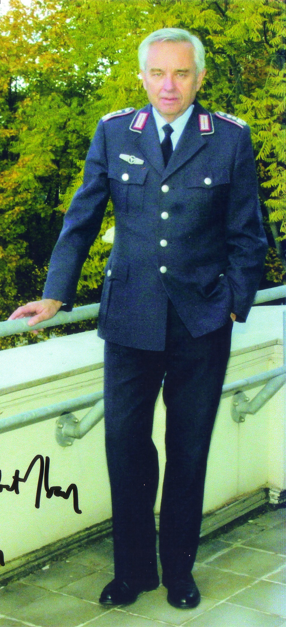 Colonel Hans-Joachim Harder on the balcony of Villa Ingenheim in Potsdam on Oct 1, 2003